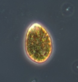 A cell of Ostreopsis cf. ovata, sampled in the Gulf of Naples (Tyrrhenian Sea, Mediterranean Sea).